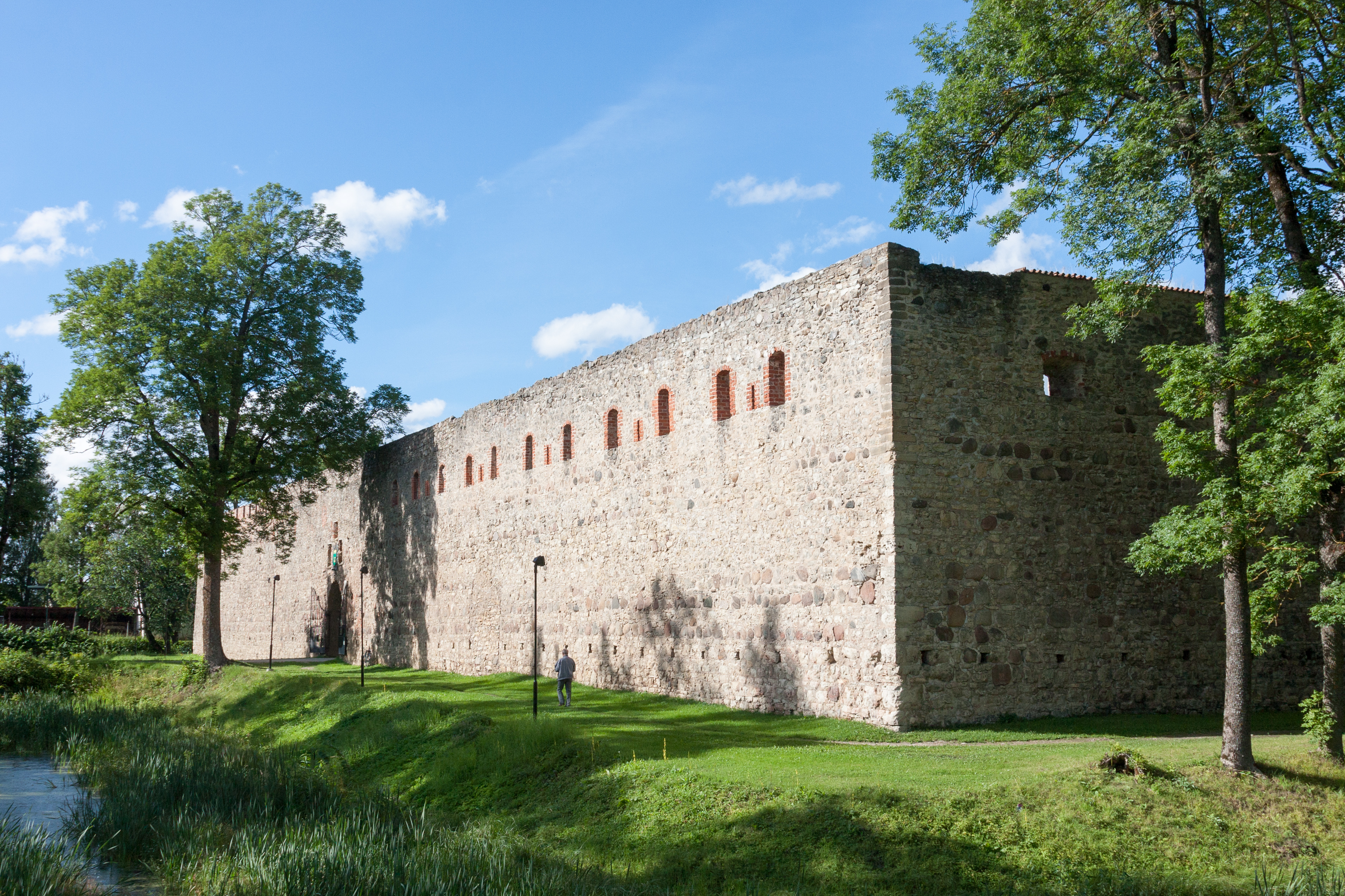 Põltsamaa Castle walls.